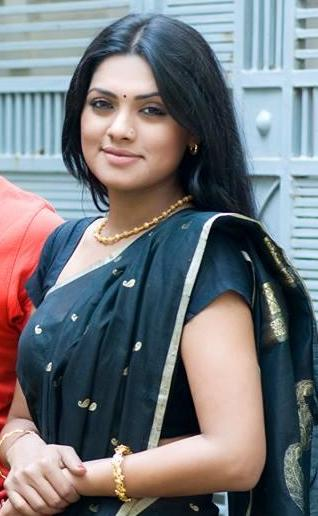 Tisha in a TV drama set in Banani 2014